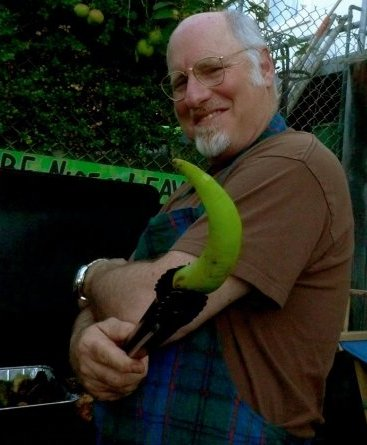 Joel Selvin at the barbecue holding a pepper for grilling. Photograph by Steve Miller, given to Carla Selvin, who assigned it CC 3.0 Share attribution.